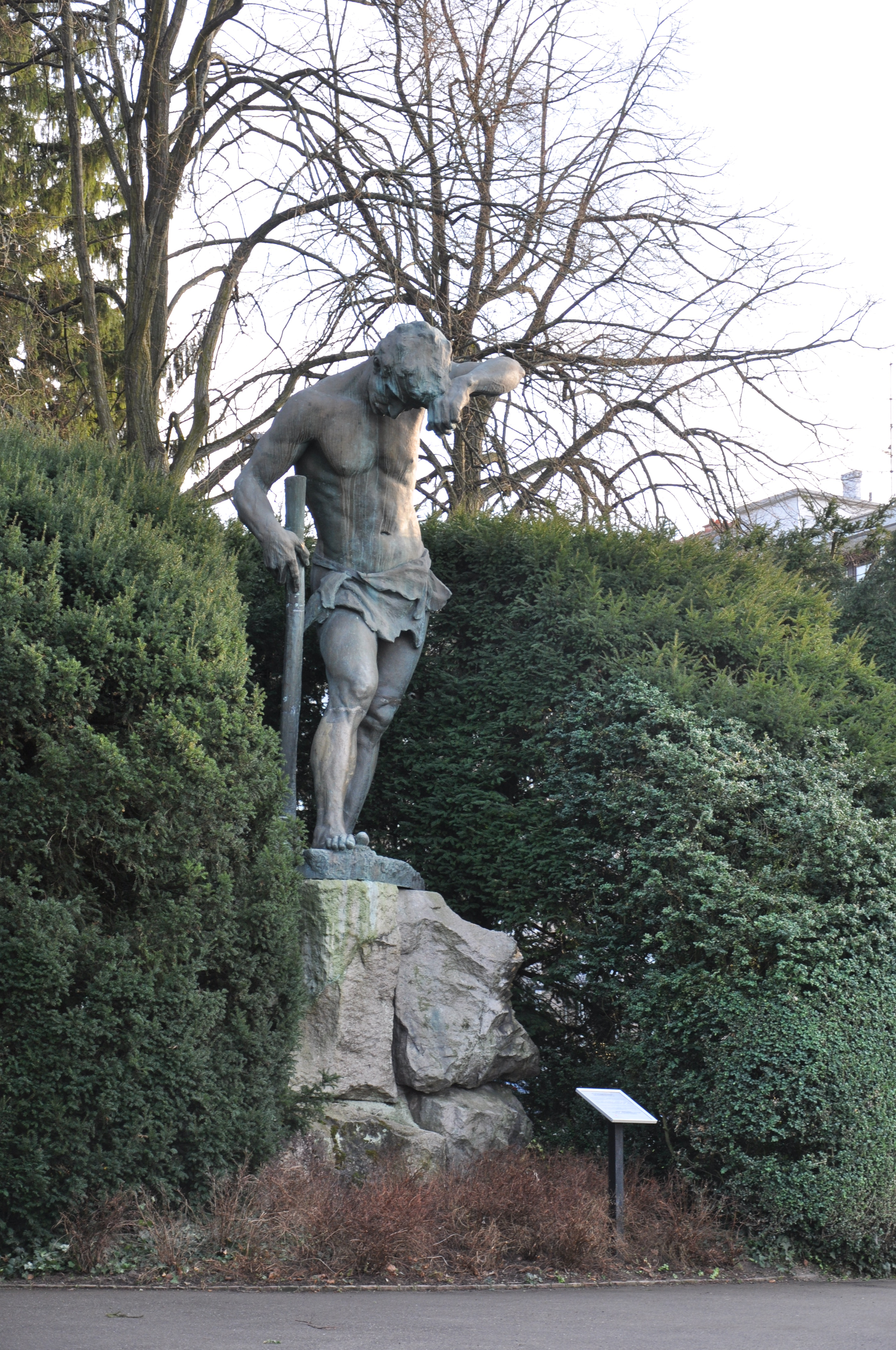 Parc Tivoli, Mulhouse: statue of a perspiring worker (1905)